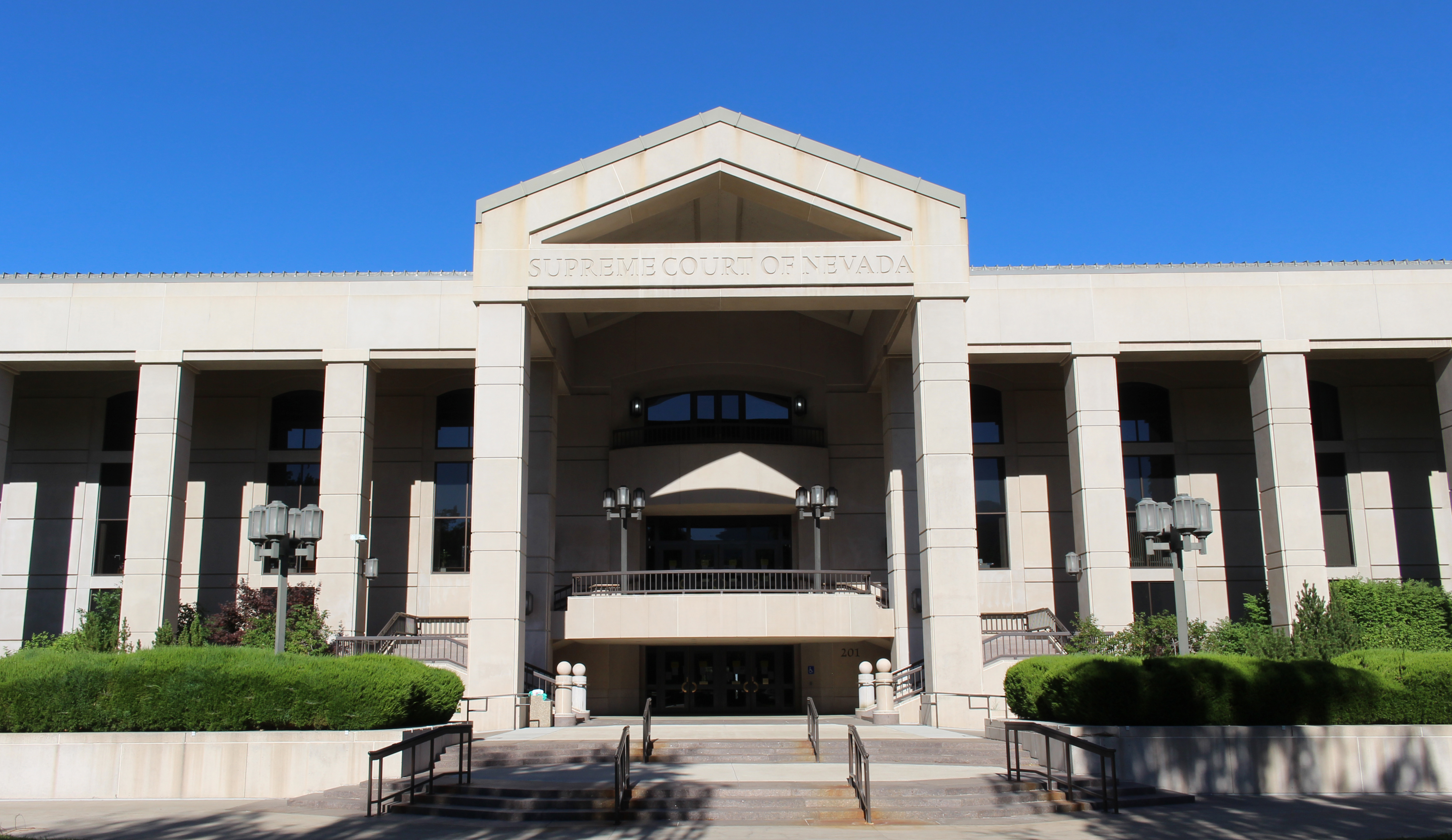 The Supreme Court of Nevada's main courthouse in Carson City, Nevada. Photographed on July 4, 2020 by user Coolcaesar.